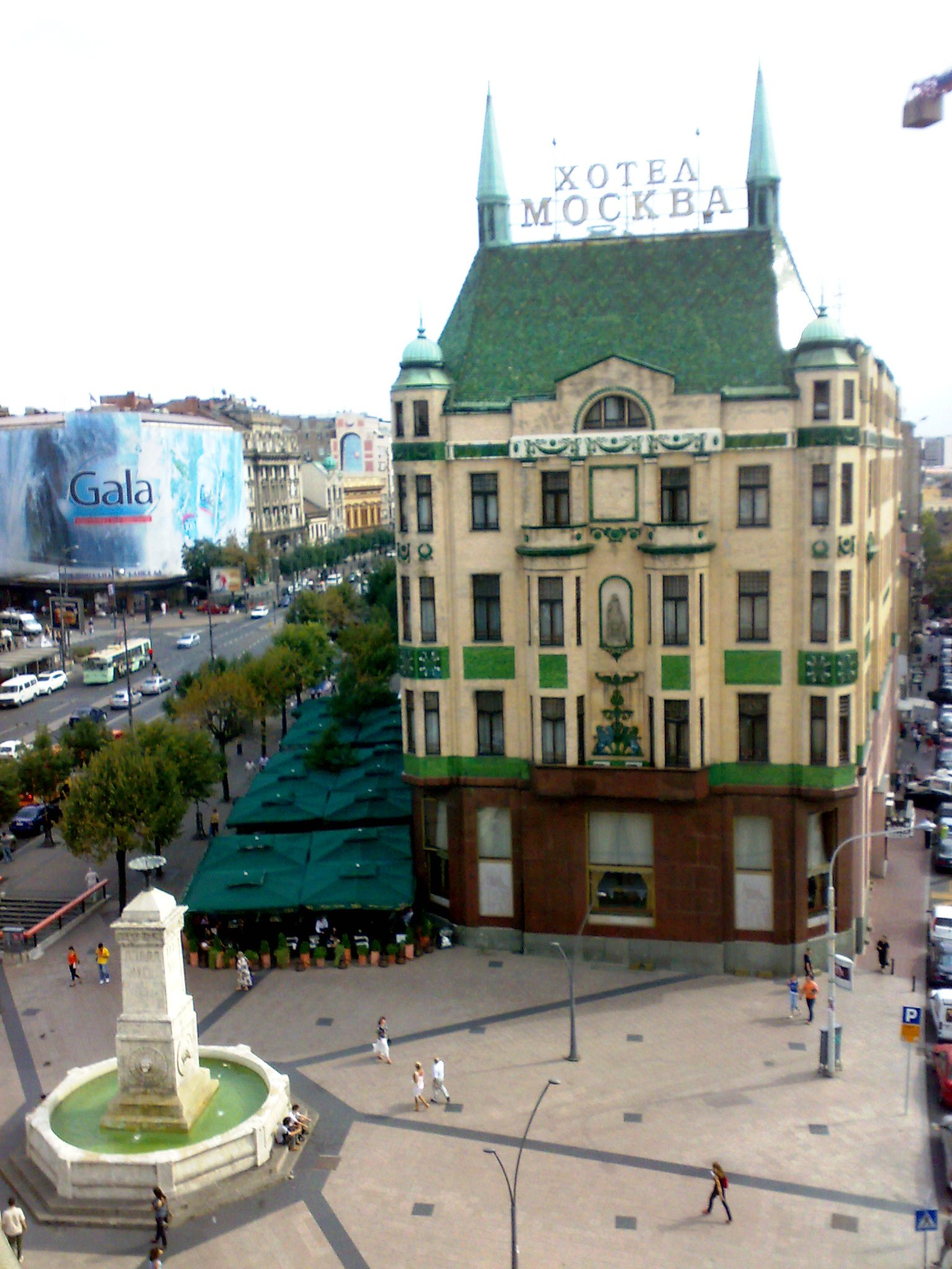 Hotel Moskva, in central Beograd, Serbia